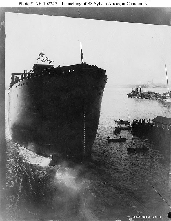 Commercial tanker SS Sylvan Arrow is launched. She later served as the United States Navy tanker USS Sylvan Arrow